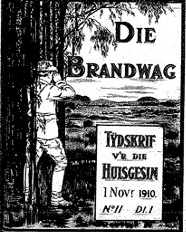 Front cover of 'Die Brandwag' (The Sentry), Afrikaans monthly first published in 1910